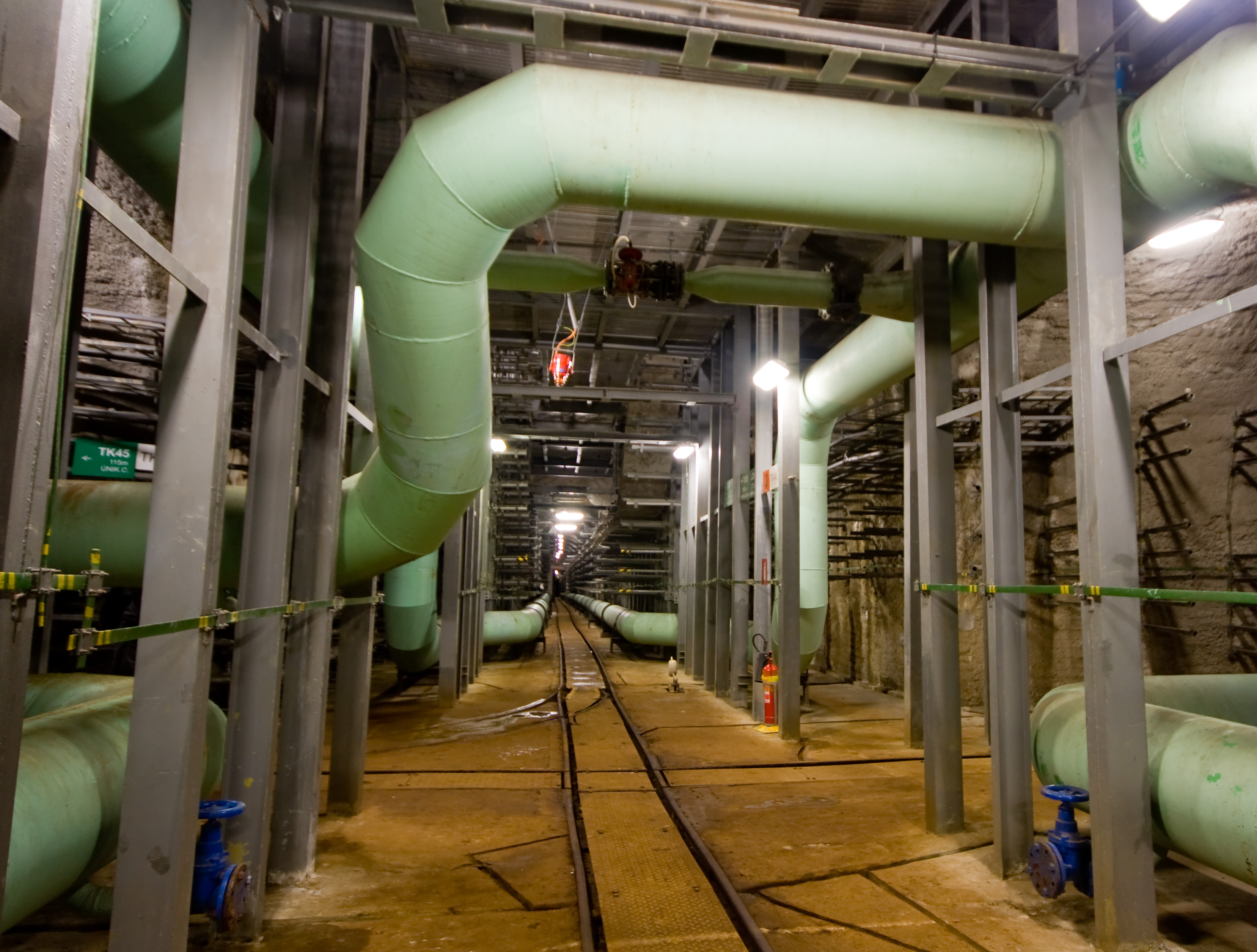 Utility tunnels Prague, Prague Tato série fotografií vznikla za laskavého svolení společnosti Kolektory Praha